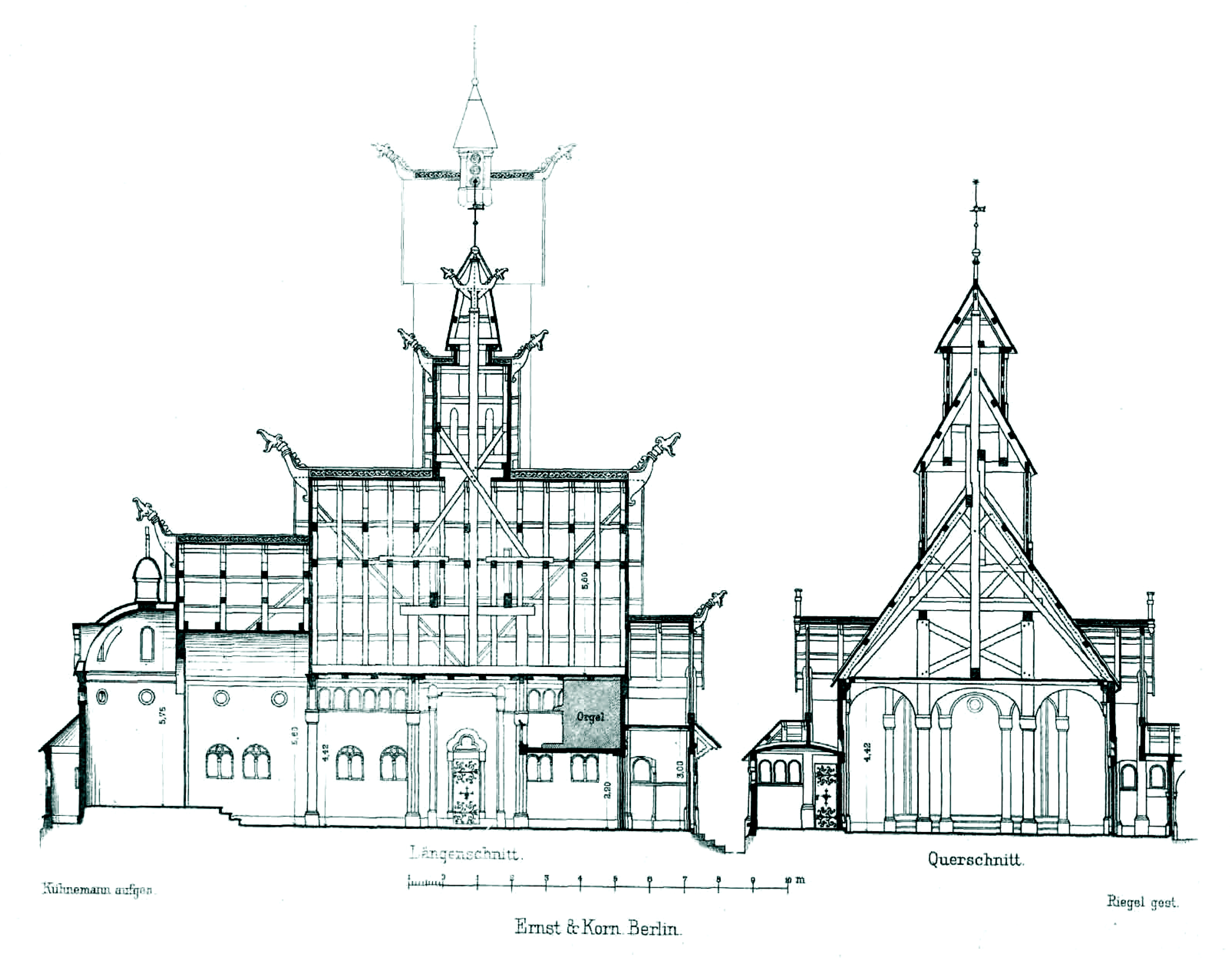 Vang stave church - cross section and longitudinal section